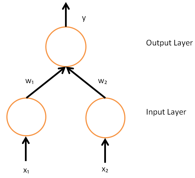 A simple neural network with two input units directly connected to one output unit. The inputs to the input units are x 1 {\displaystyle x_{1 and x 2 {\displaystyle x_{2 . The weights between the input units and the output unit are w 1 {\displaystyle w_{1 and w 2 {\displaystyle w_{2 . The output of the output unit is y {\displaystyle y} .